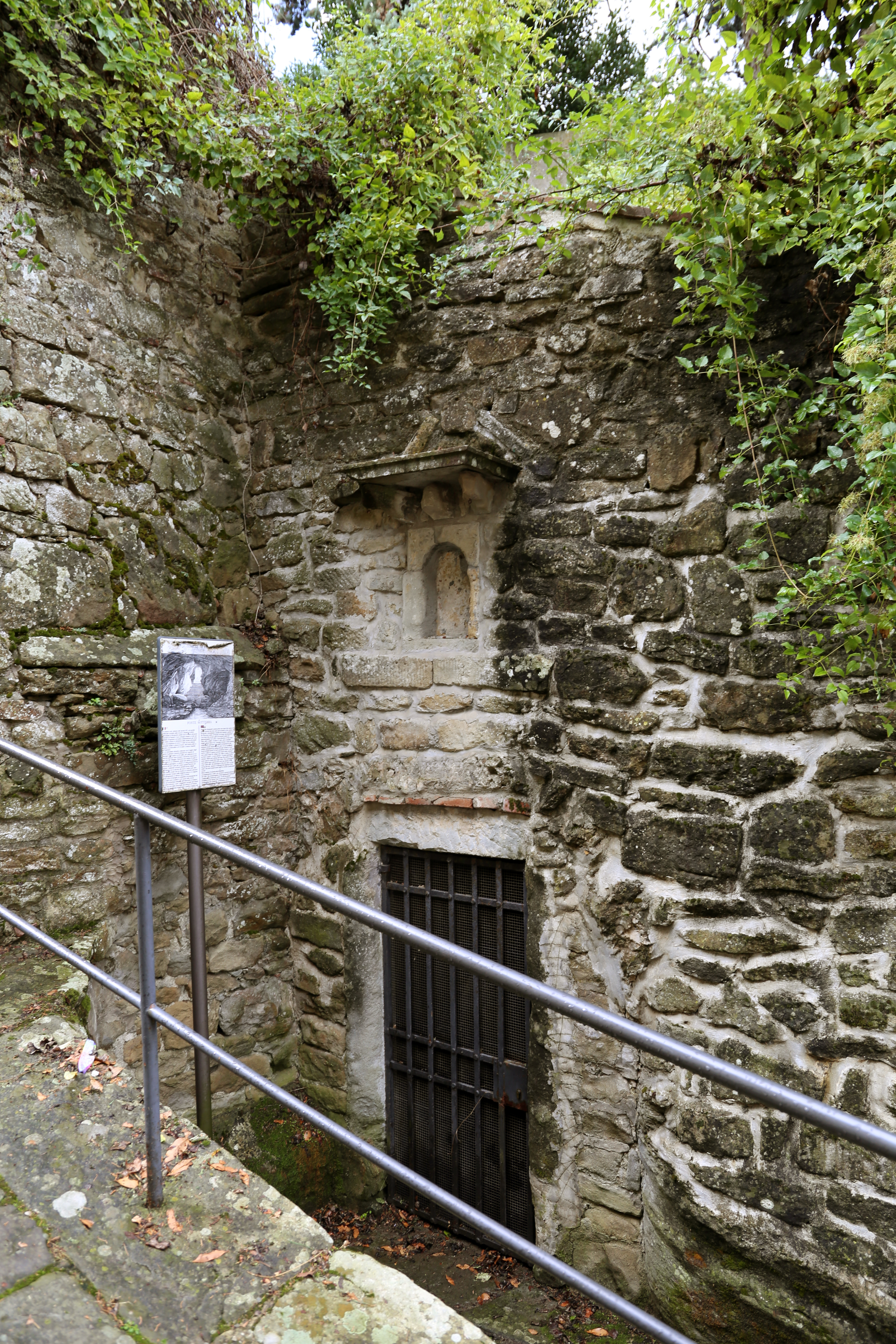 Fiesole miscellany